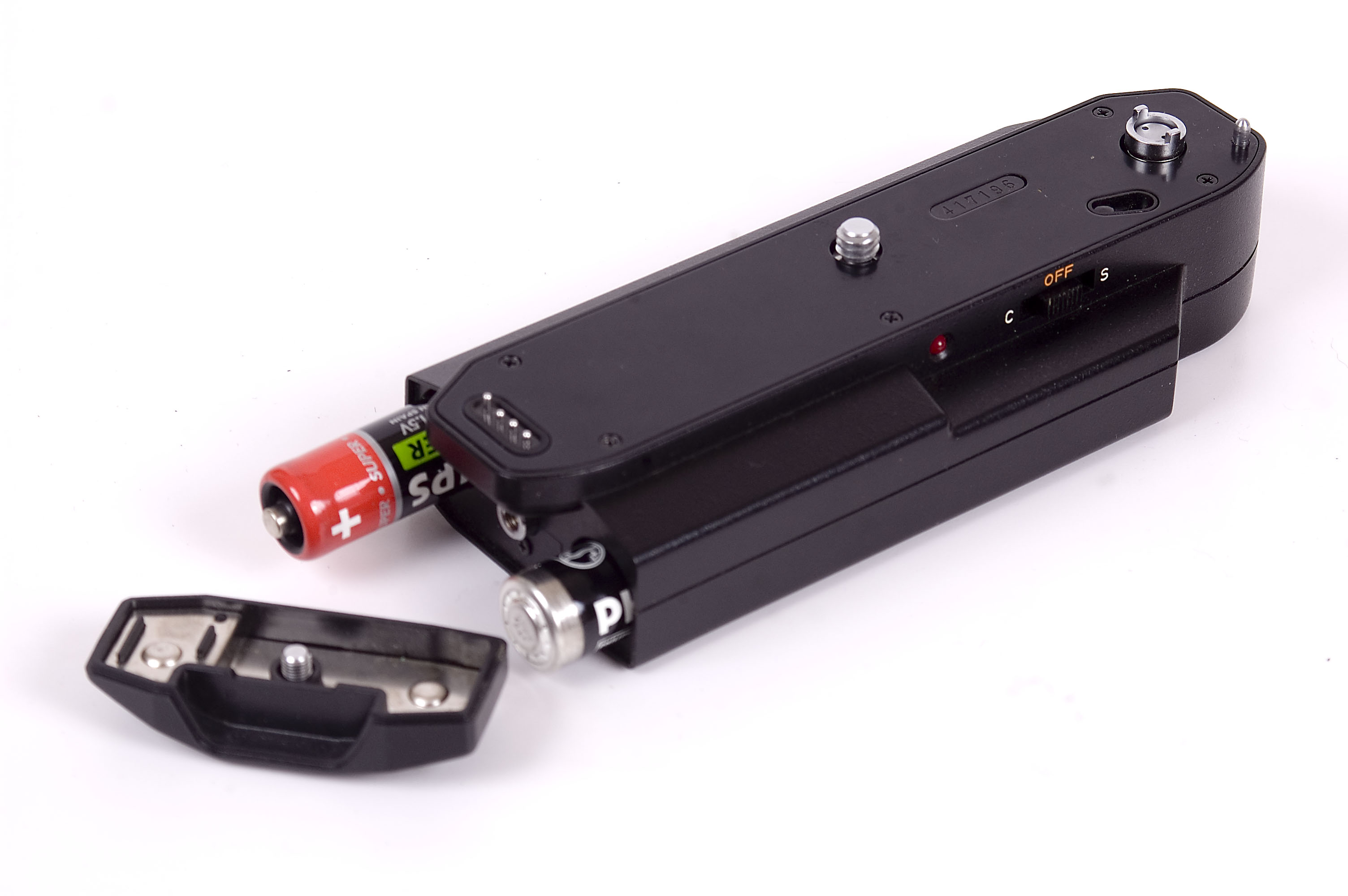 Canon Winder A2